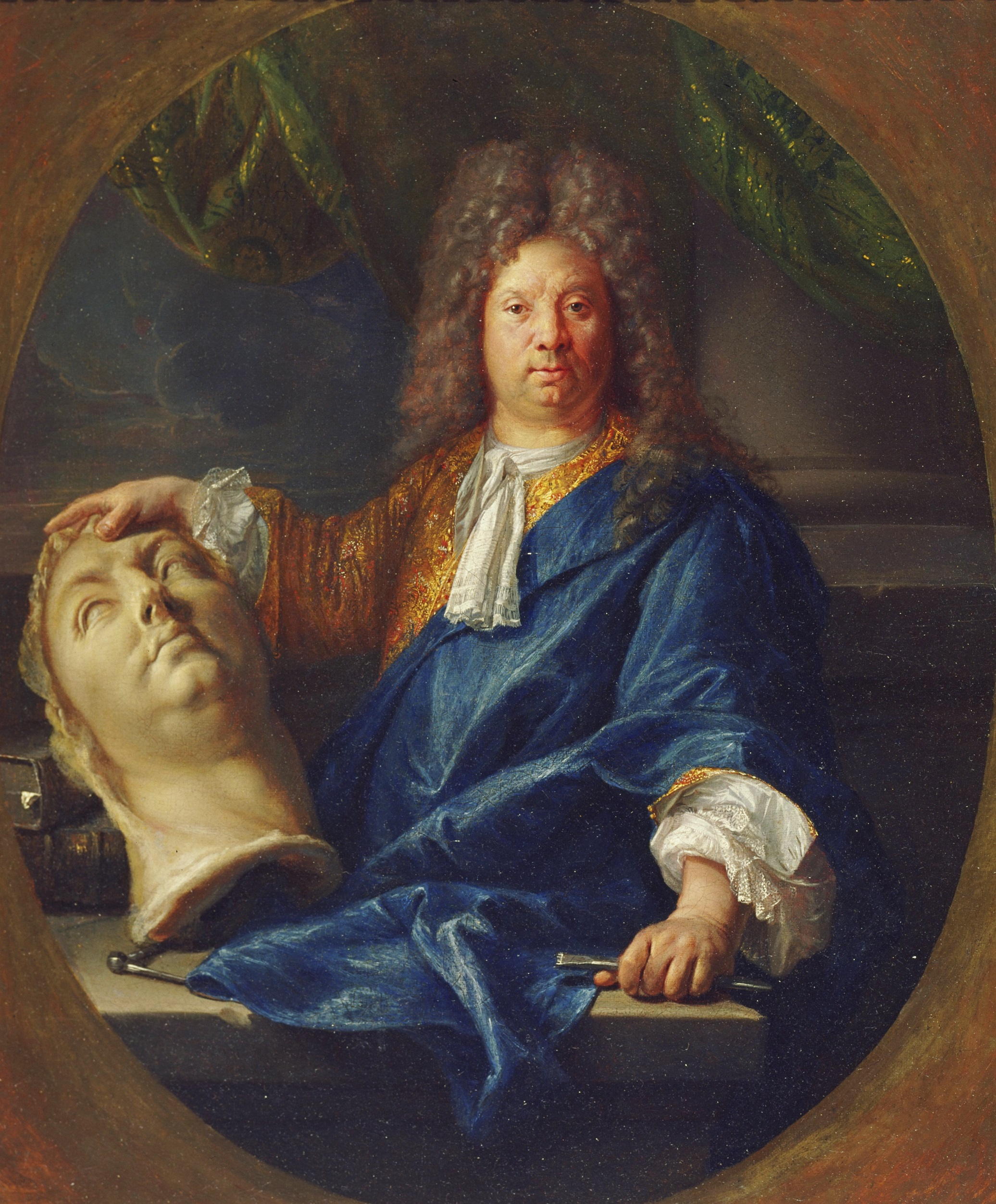 Depicted person: Antoine Coysevox (1640-1720), French sculptor